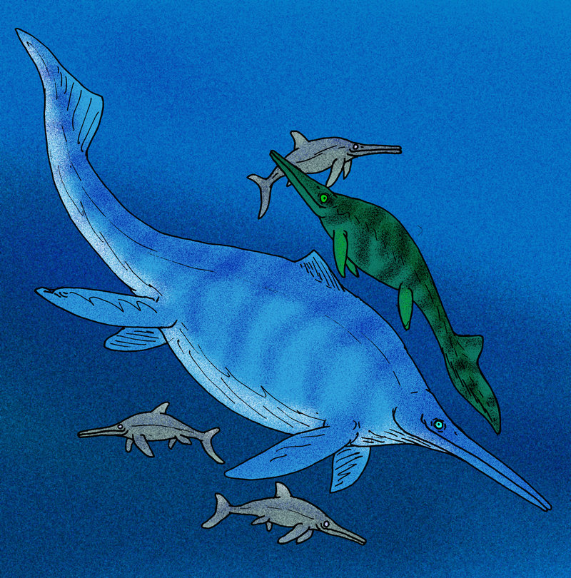 Various members of the Late Triassic ichthyosaur family Shastasauridae, including Shastasaurus, Shonisaurus, and Californosaurus